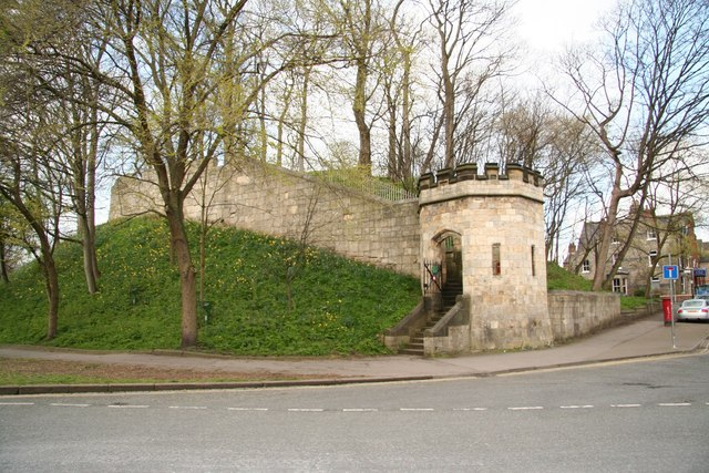 Baile Hill The Old Baile ..... tree clad site of the first York Castle motte 1068-69